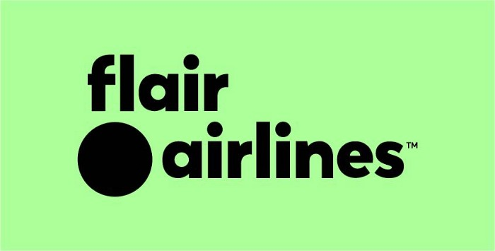 Flair Airlines 2019 Plane and Simple Logo brand makeover